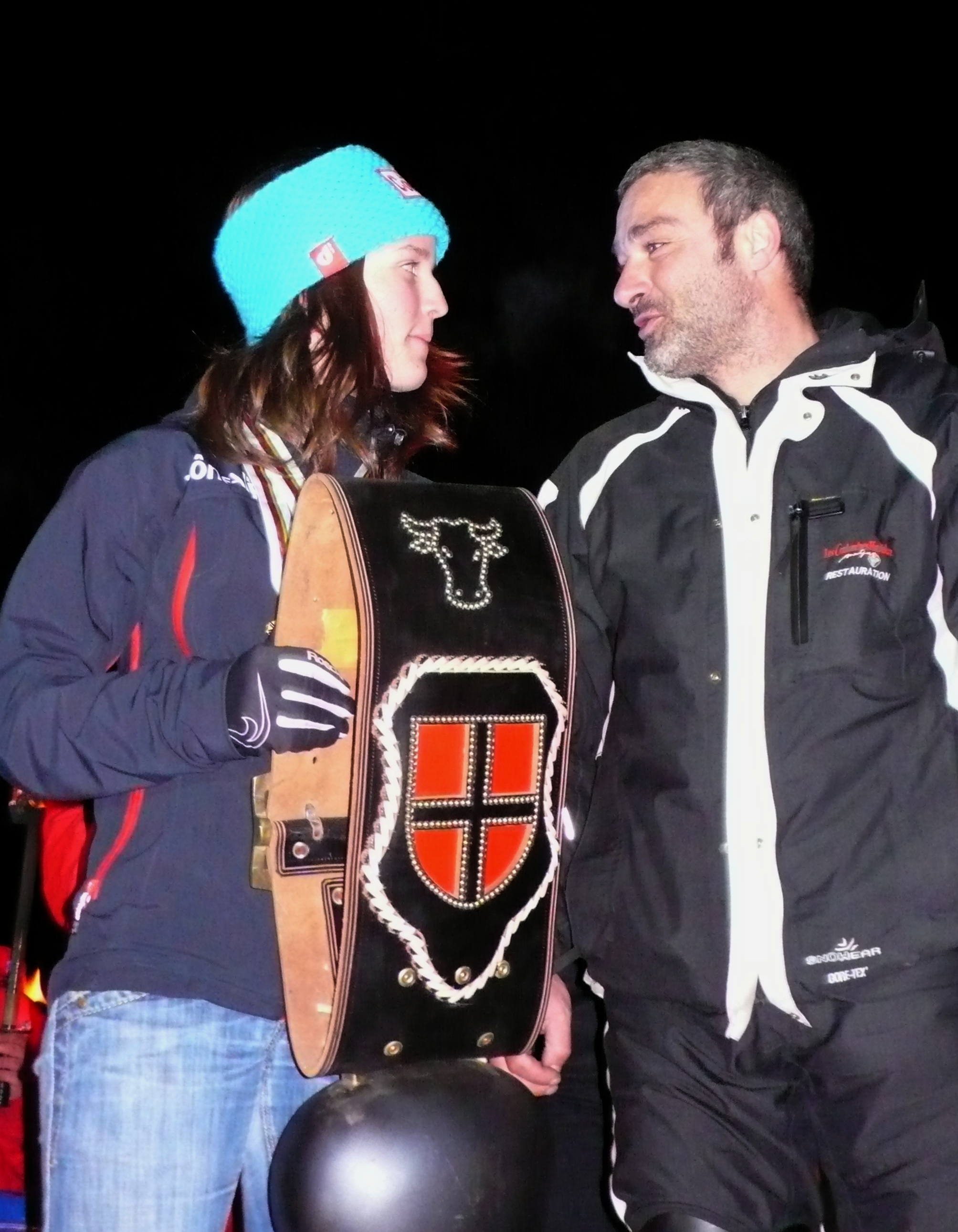 Coline Mattel with junior world gold medal 2011, and world bronze medal 2011, during ceremony: Didier Mollard is giving her a supporter cow bell, gift from the City Council of Les Contamines